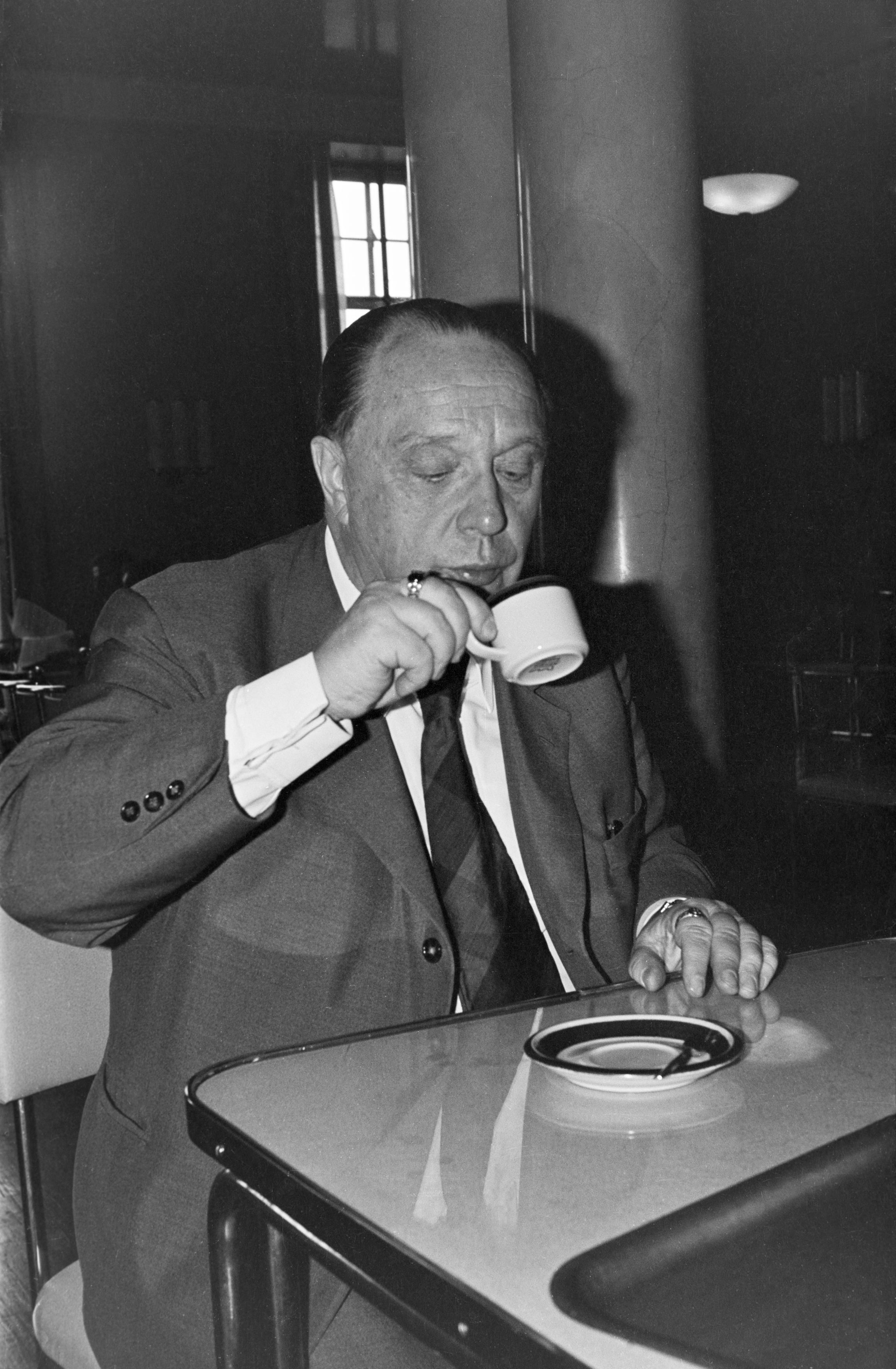 Photograph of the Finnish politician Veikko Vennamo at the cafeteria of Parliament House, Helsinki.